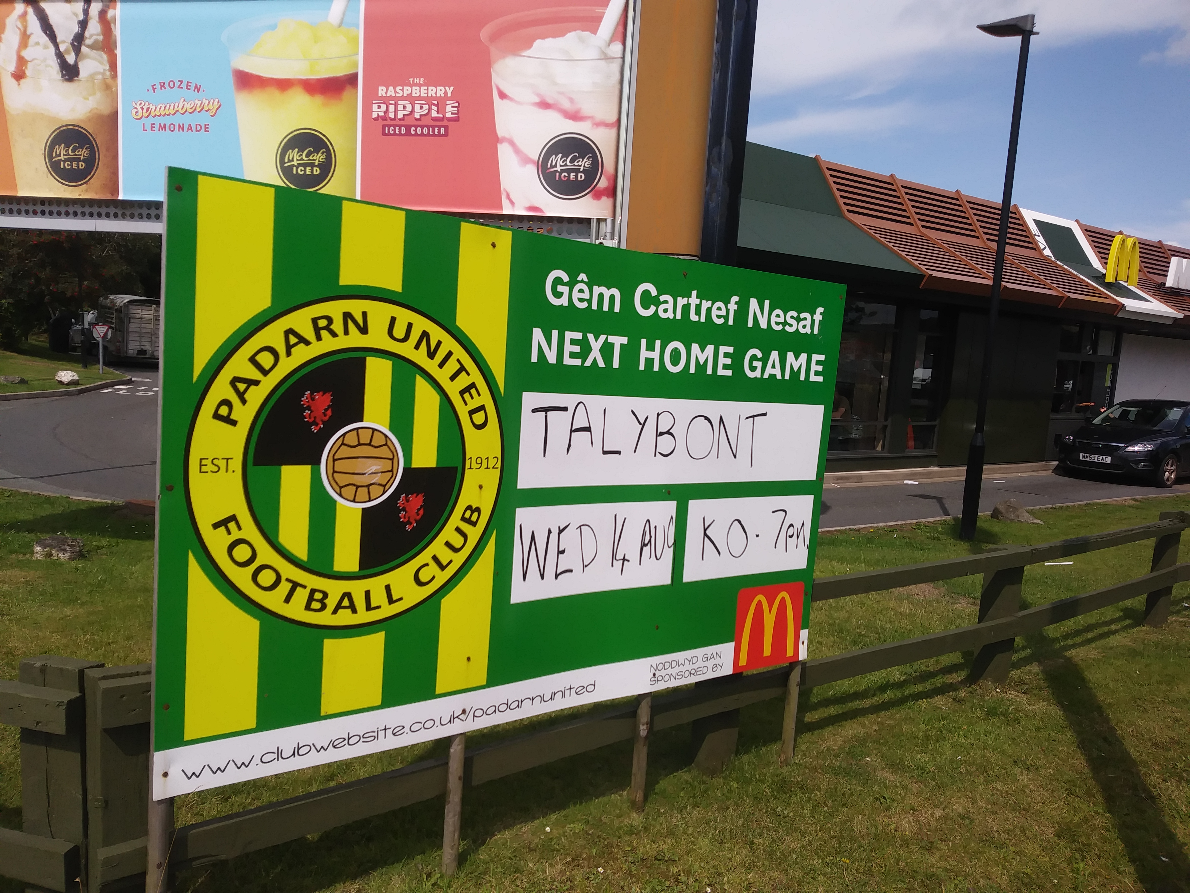 promotional signage outside McDonalds, Aberystwyth A487 roundabout, Llanbadarn Fawr, Aberystwyth, August 2019